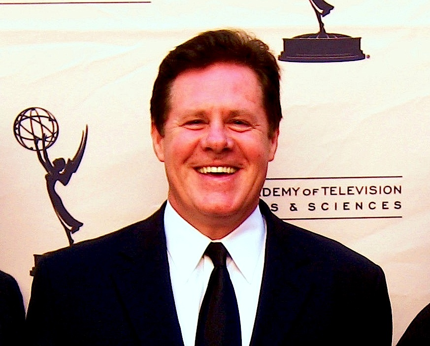 Ben McCain - Photo courtesy of Richard McManus